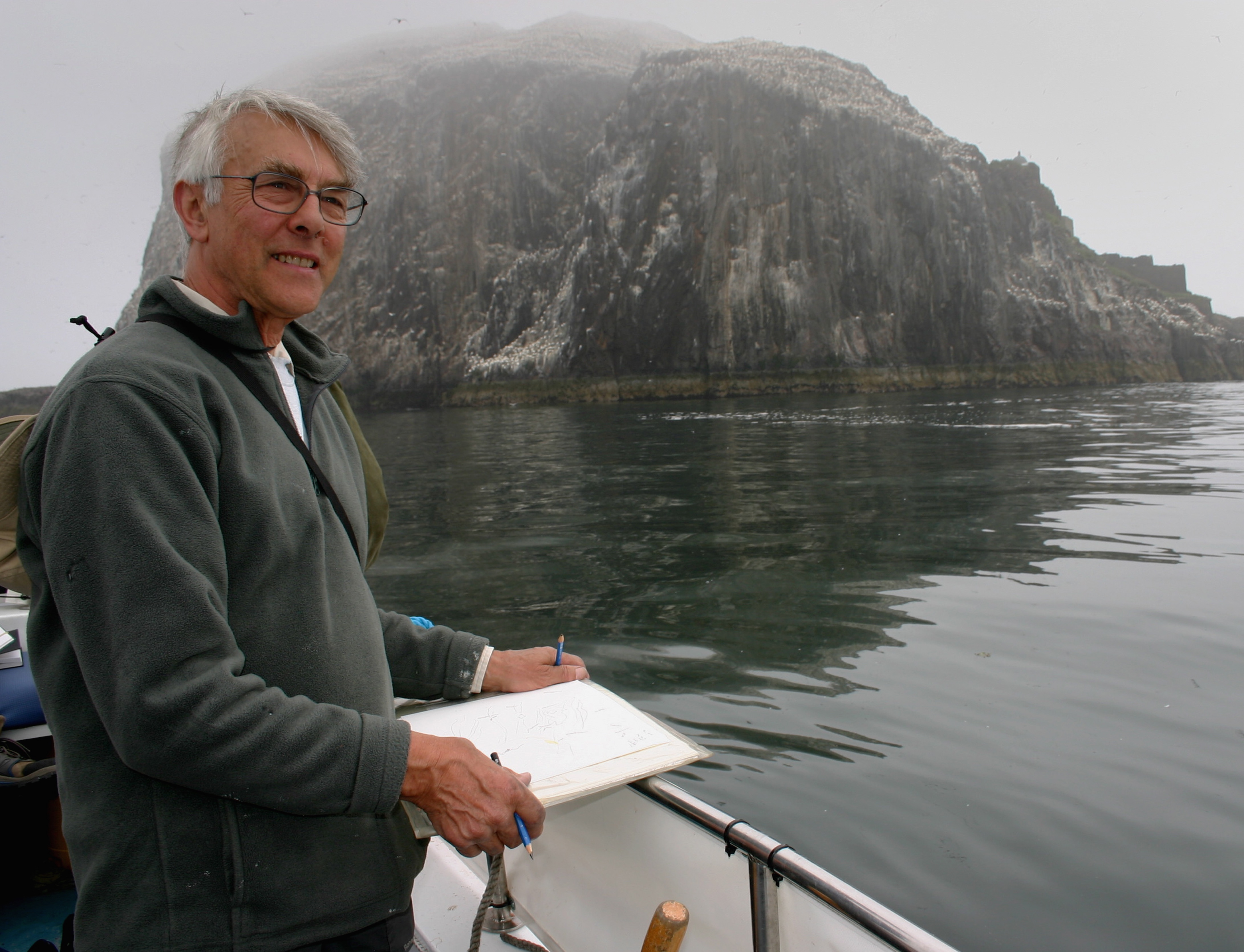 photo by Hallgeir B Skjelstad